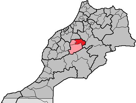 Location of the province Béni-Mellal within the region Tadla-Azilal, Morocco. In total, Morocco has 16 regions, subdivided into 62 provinces and 13 prefectures.